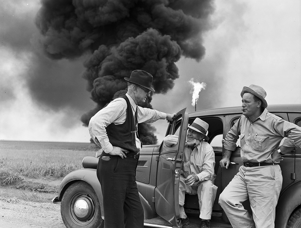 Title: [John Butler talks with two men while oil well fire burns in background] Alternative Title: John Butler - Reed Roller Bit Creator: Robert Yarnall Richie Date: June 1938 Part Of: Robert Yarnall Richie Photograph Collection Place: Friendswood, Texas Description: It is common practice to allow the first few barrels of oil to run into the mud pit. This is burned off, because it contains salt water, mud, & other impurities. After that the oil is diverted into separator tanks. Source: Negative sleeve 1839-4. The men depicted in this image, in which an oil well fire is burning in the background, are identified as John Butler, an unnamed Humble field superintendent, and an unnamed third man. Source: Negative sleeve 1834-9. Physical Description: 1 negative: film, black and white; 10.3 x 13.1 cm. File: ag1982_0234_1839_11_reedrollerbitco_sm_opt.jpg Rights: Please cite DeGolyer Library, Southern Methodist University when using this file. A high-resolution version of this file may be obtained for a fee. For details see the web page. For other information, . For more information and to view the image in high resolution, View the Robert Yarnall Richie photograph collection